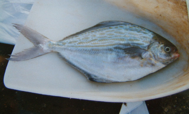 Dead specimen collected by trawl net in Neaples area. Photo By Fabio Crocetta